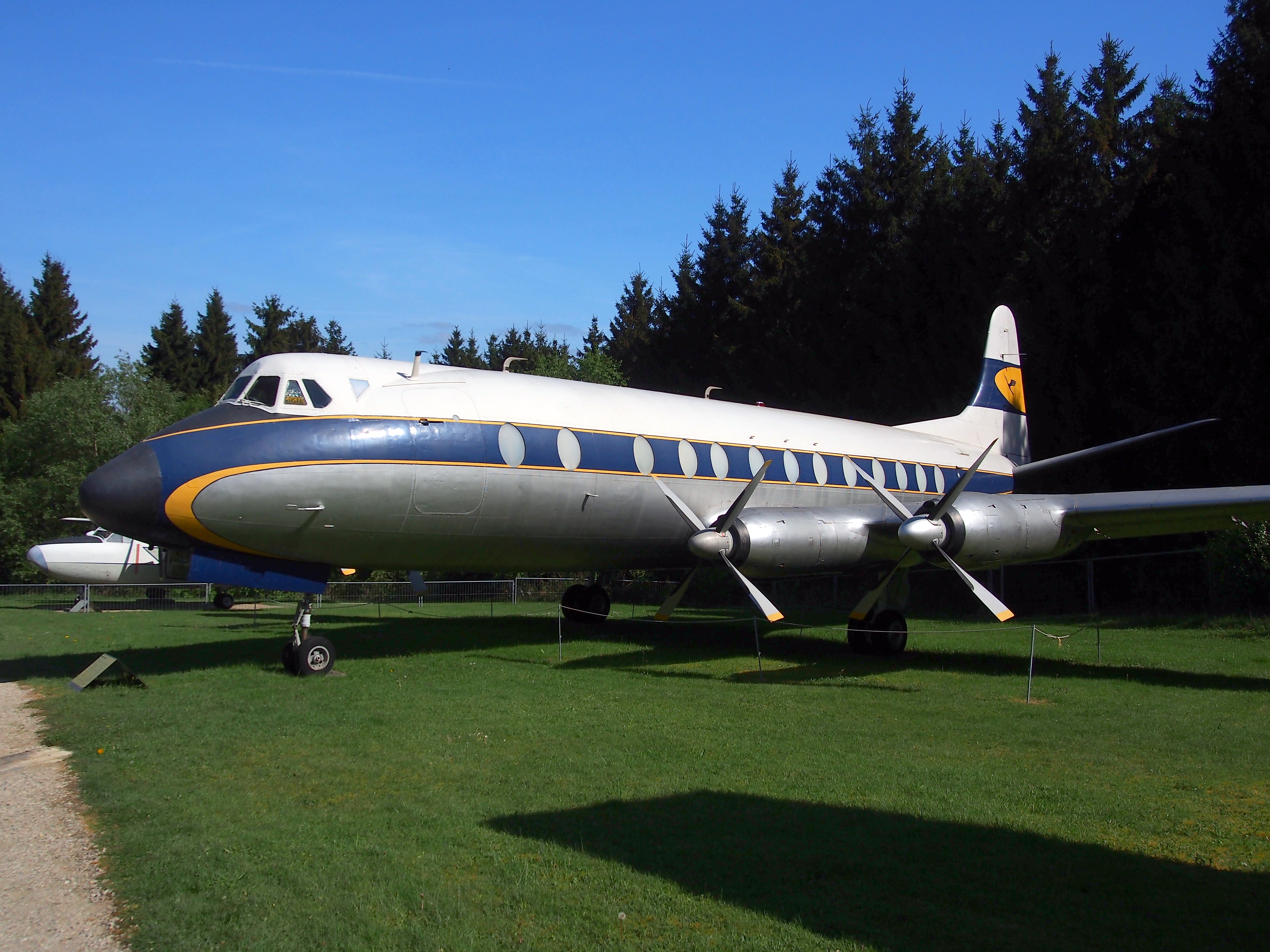 Vickers 814 Viscount D-ANAM, c/n 368, photographed at Hermeskeil.